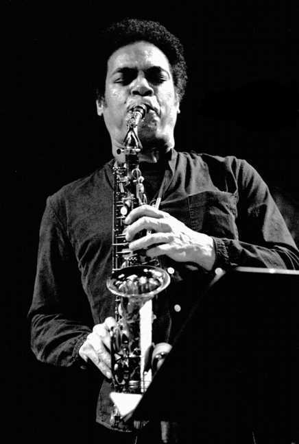 Jimmy Lyons, with Cecil Taylor at Great American Music Hall, San Francisco CA 1978. Photo by Brian McMillen /